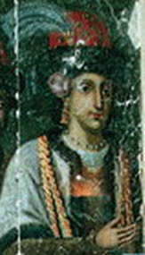 Portrait of Prince Stefanitca Lupu